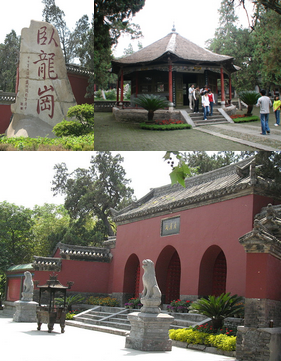 Nanyang